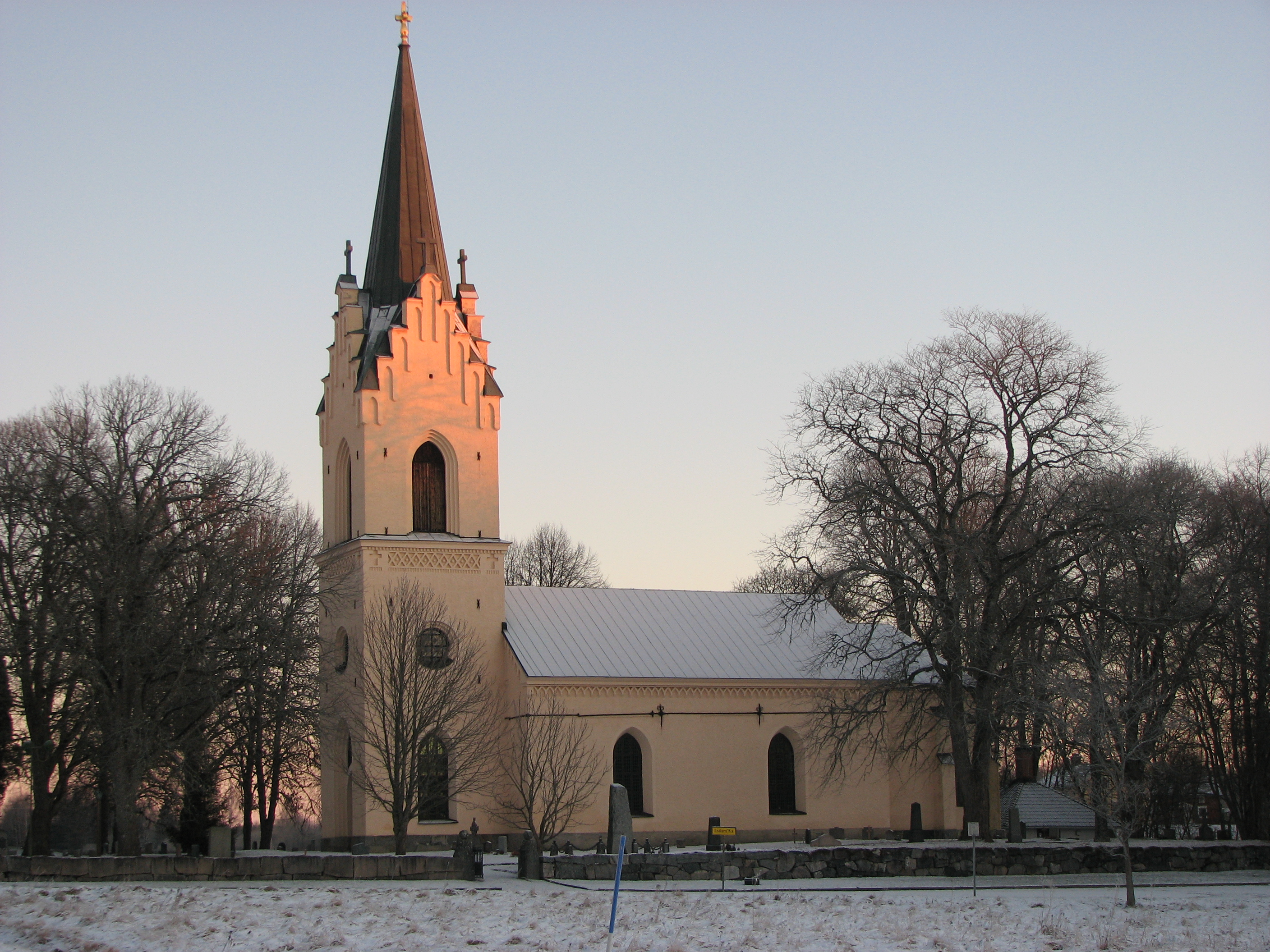 Enåkers Kyrka den 16/1 2009